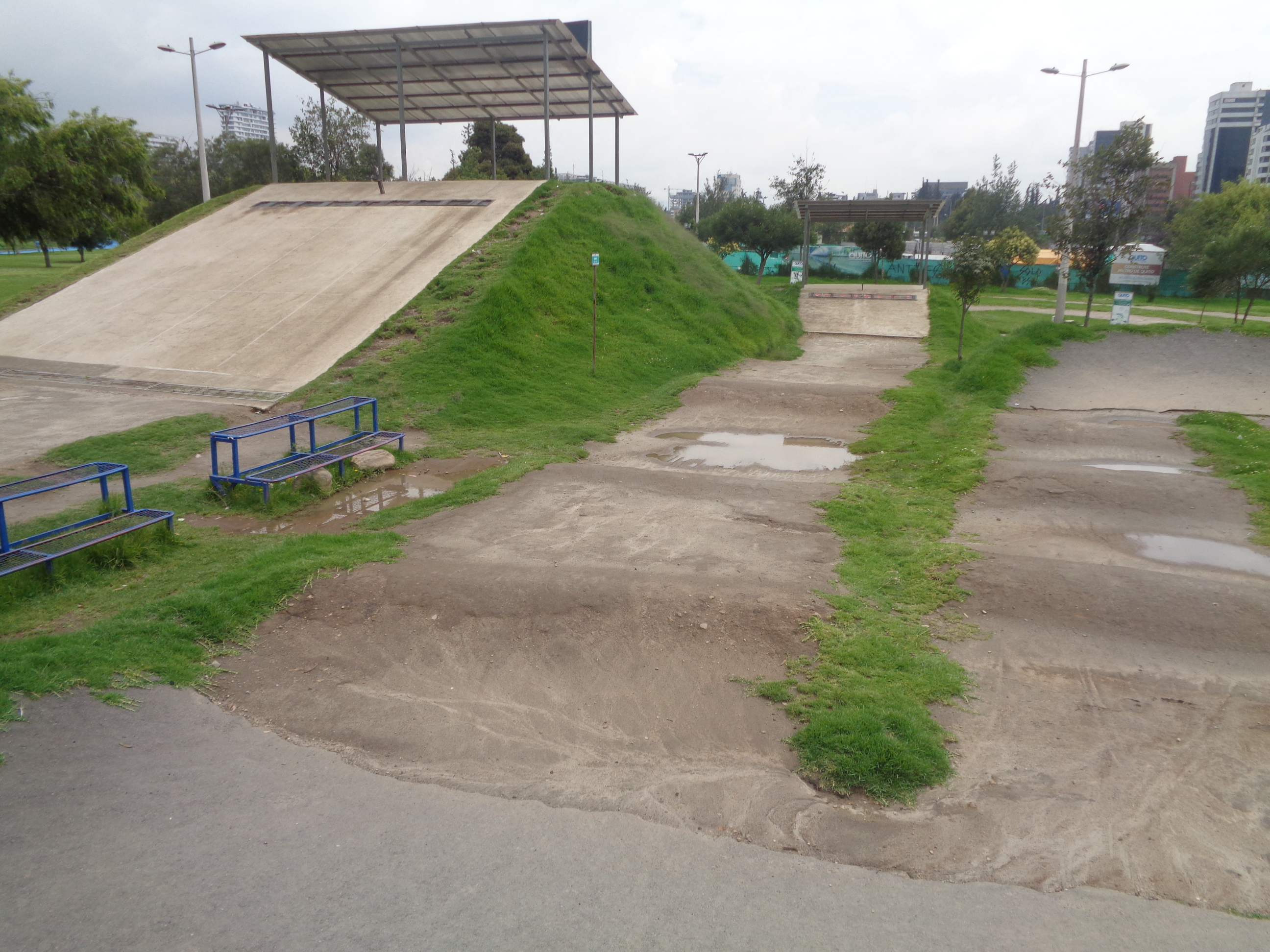 BMX tracks (Parque La Carolina) starting line, big track, small track, start. (Quito. Ecuador)